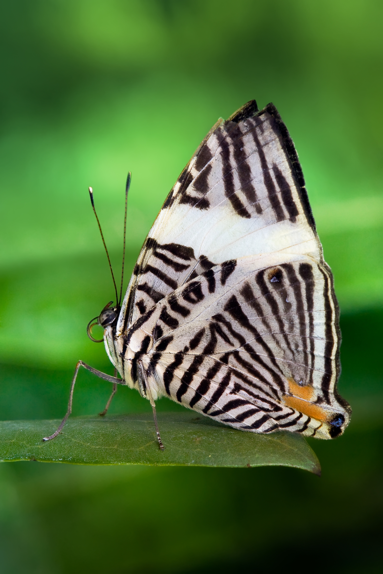 Dirce Beauty (Colobura dirce) 1758 Linnaeus (Nymphalidae). Taken at Botanischer Garten, Munich, Germany.